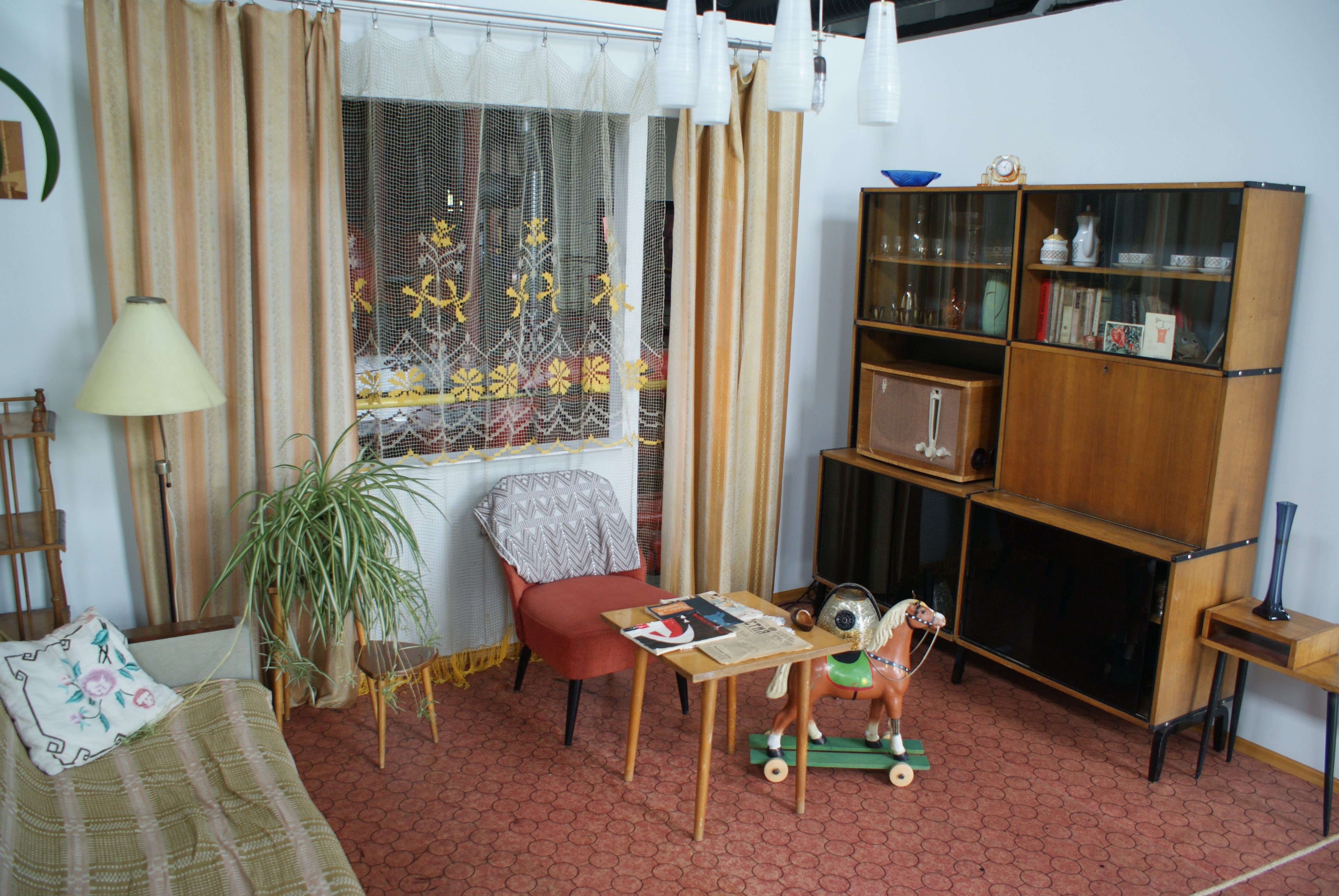 Vilnius Energy and Technology Museum